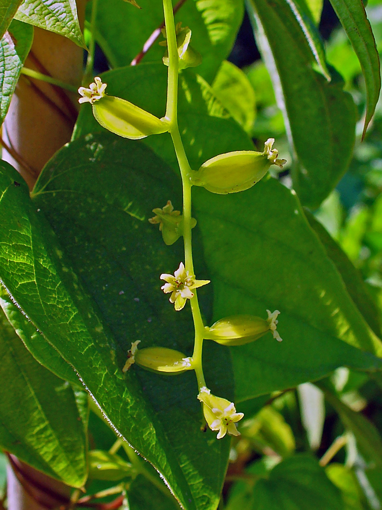 Dioscorea villosa, Wild Yam, inflorescence. Stutensee-Staffort, Germany.